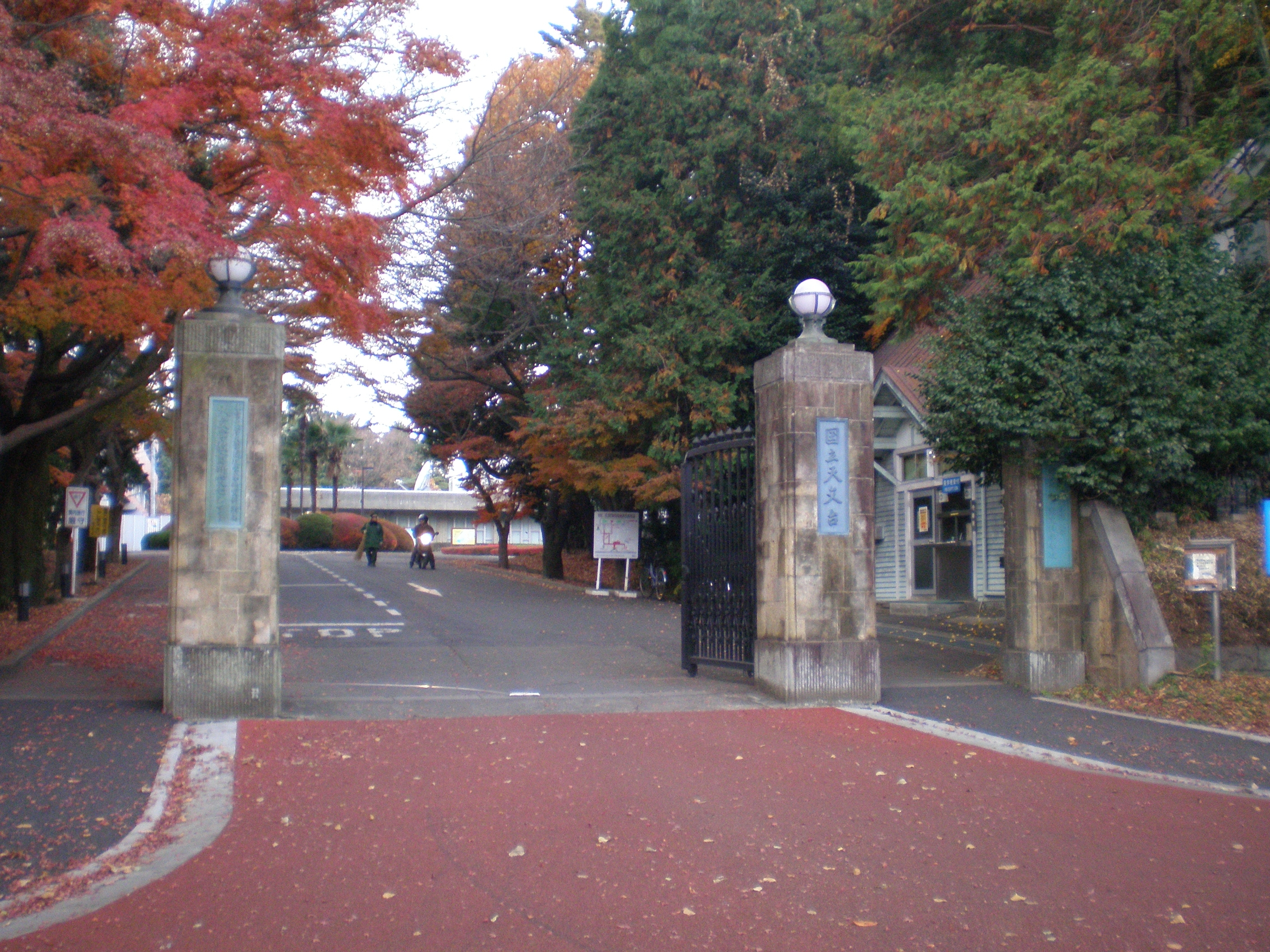 Mitaka Campus Entrance, National Astronomical Observatory of Japan.